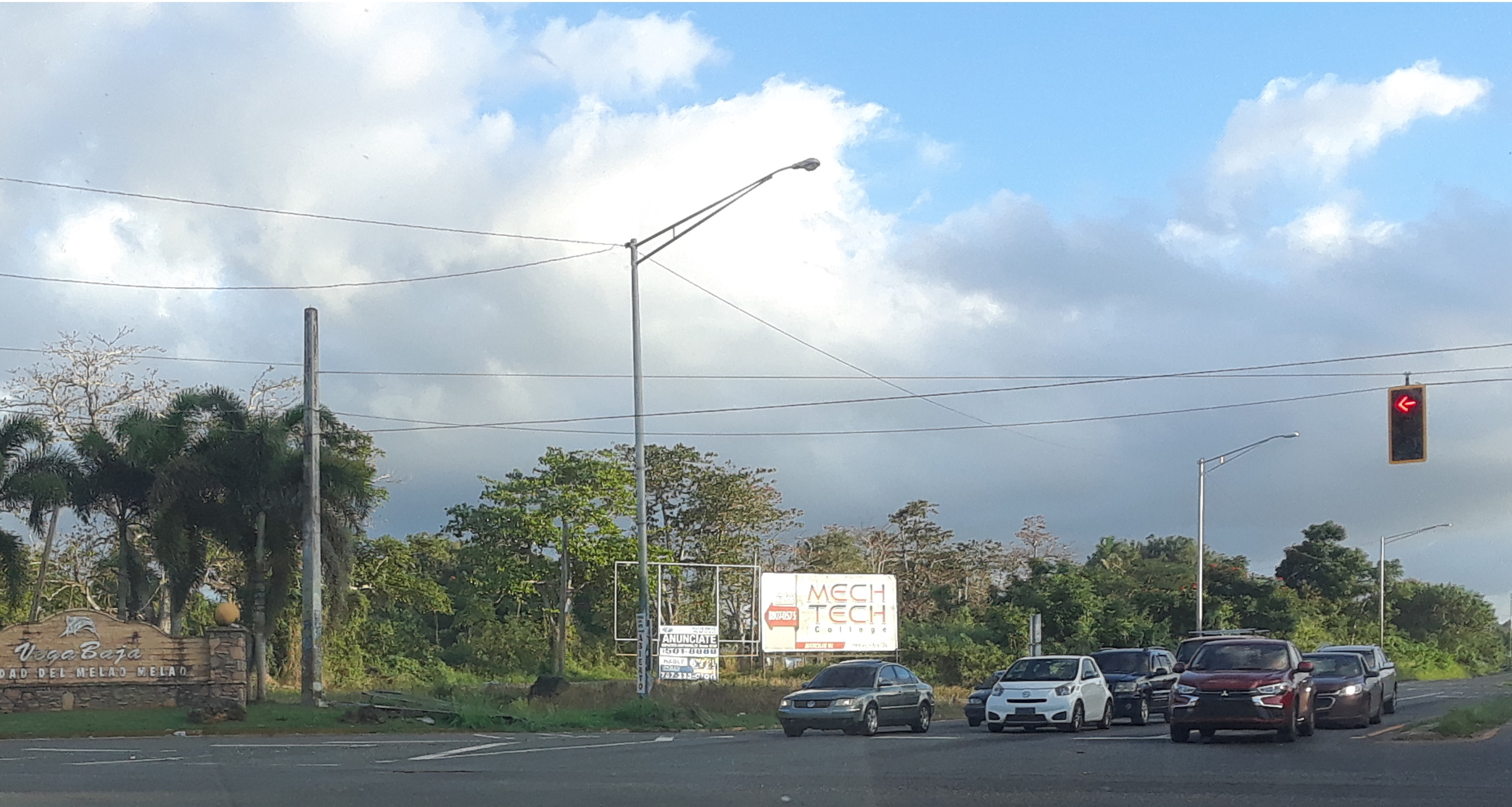 Technology college campus in Vega Baja, Puerto Rico